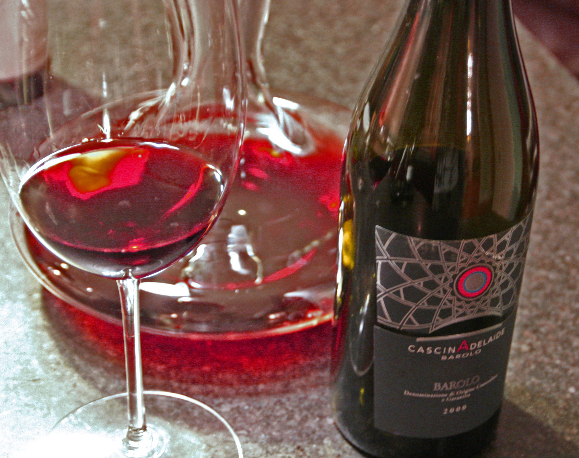 A photo showing the characteristic coloring of the Italian wine Barolo made from the Nebbiolo grapes in the Piedmont region.